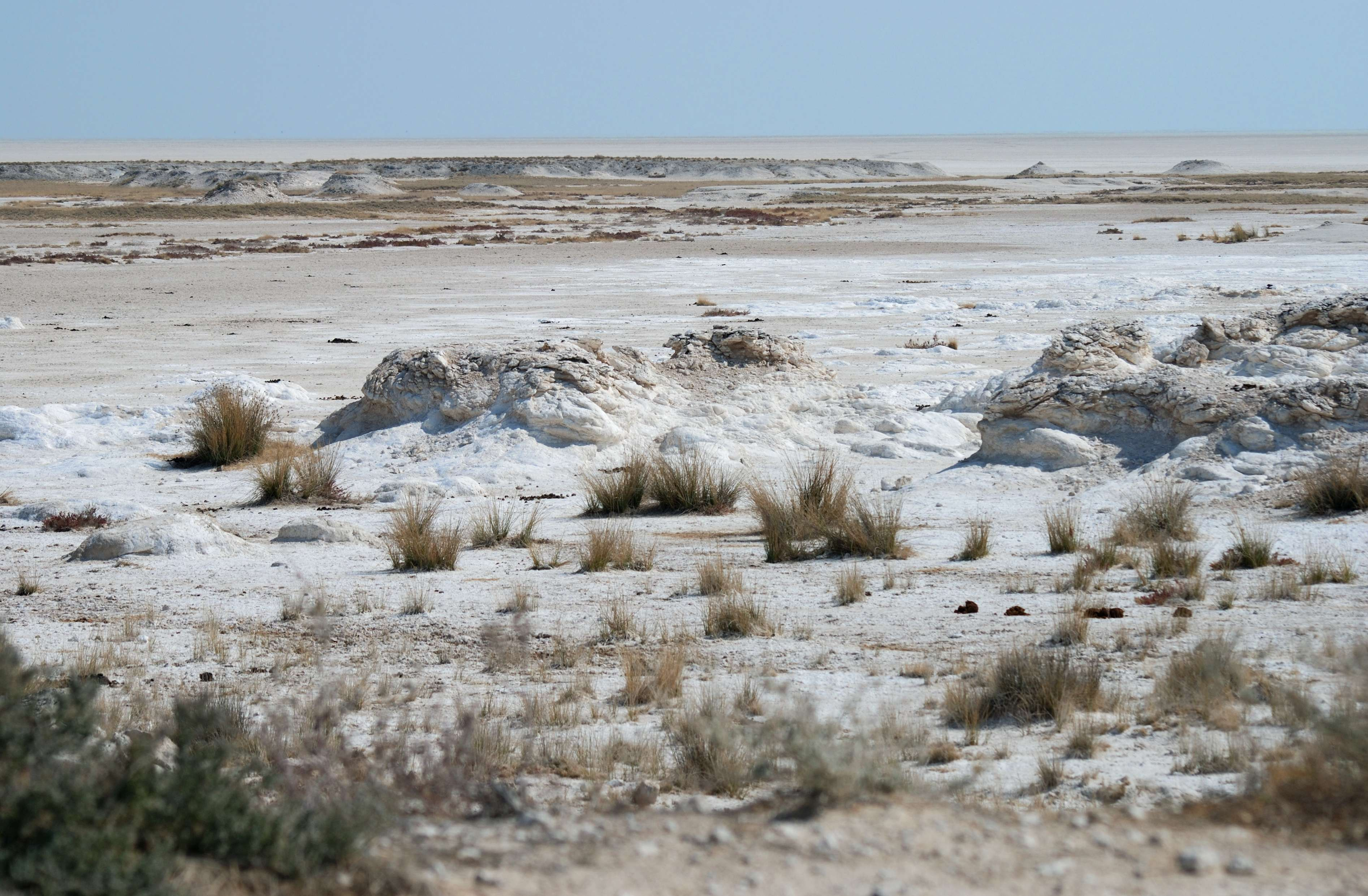 The Etosha Pan, in Etosha National Park, Namibia